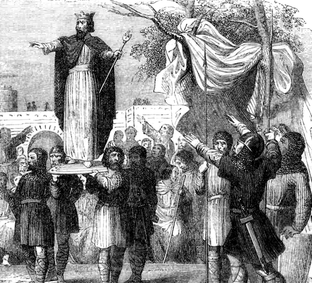 This is an anonymous engraving from the Illustrated Exhibitor Magazine dated 1852, illustrating an article about the investiture of early medieval kings.